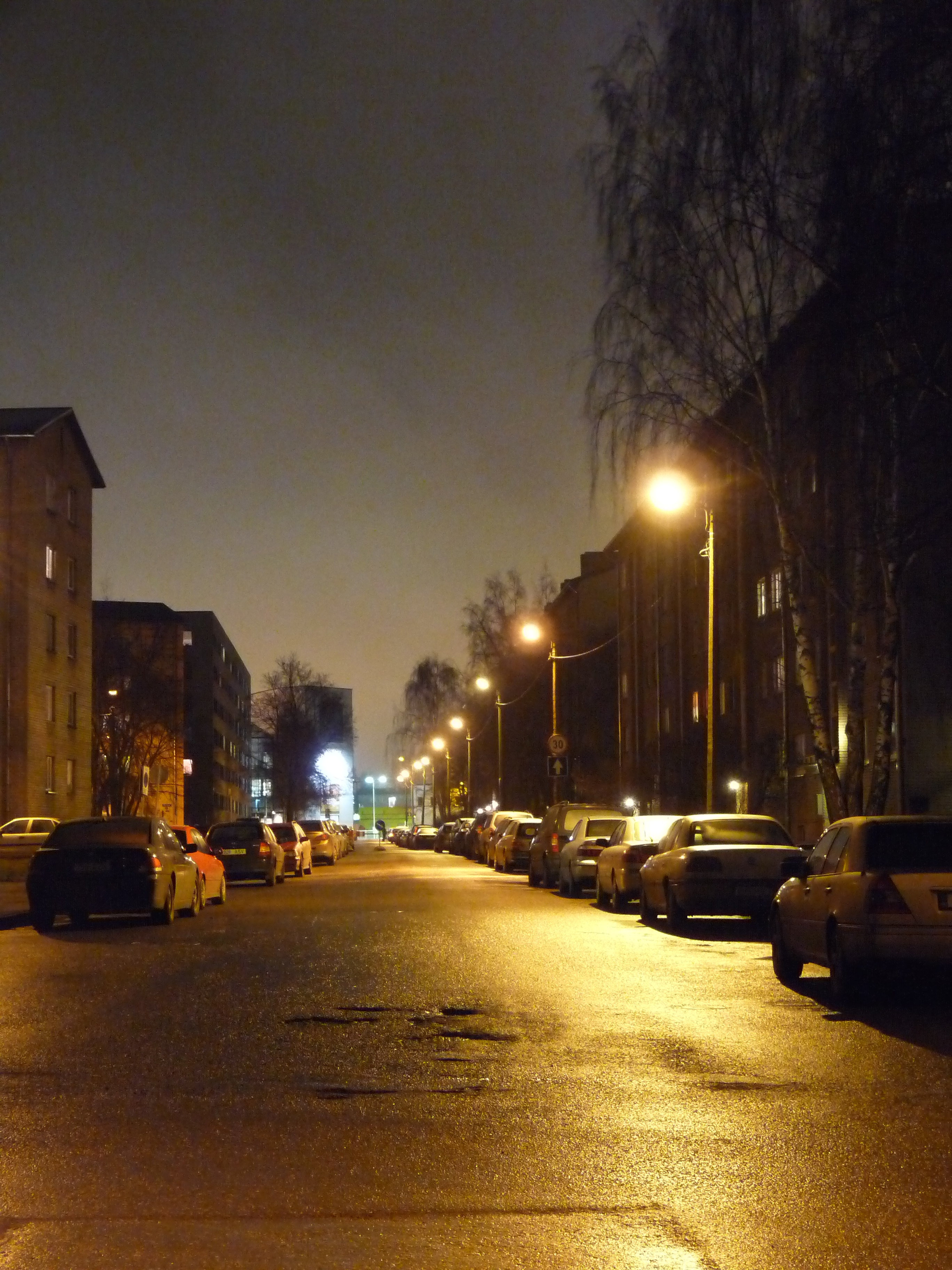 Asunduse street in Tallinn, Estonia